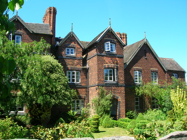 Moseley Old Hall